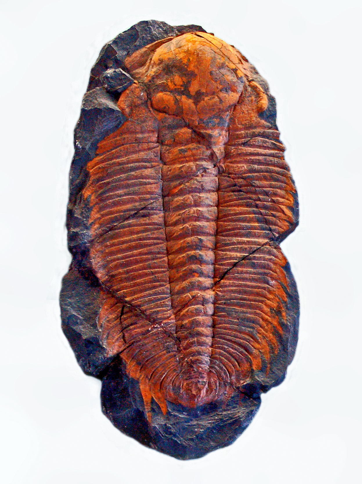 Hydrocephalus carens at the National Museum (Prague)